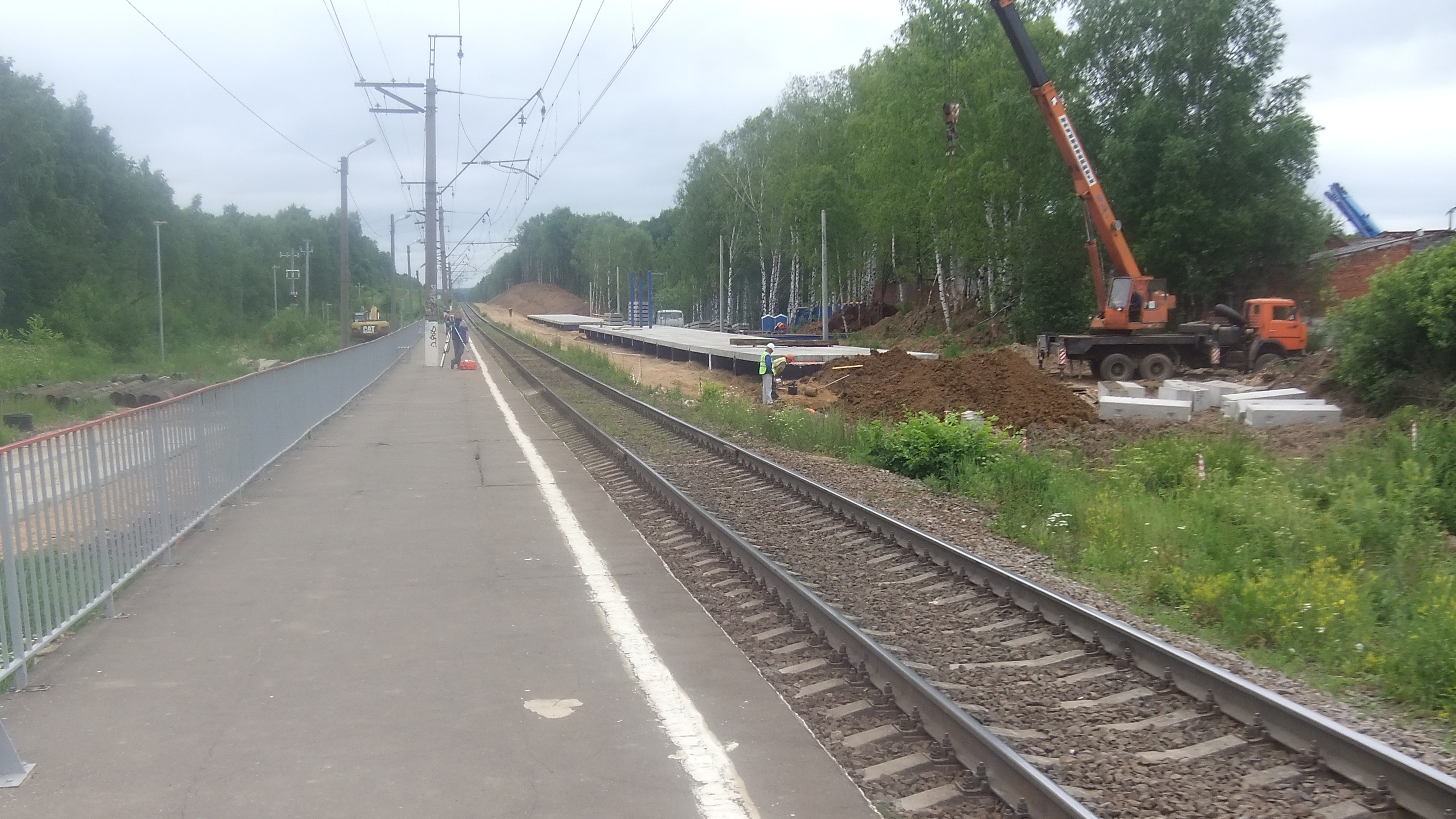 40 km BMO railway platform. View to new platform.